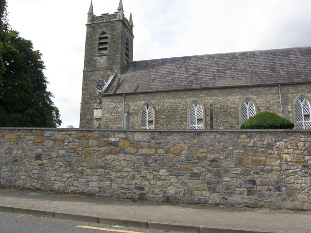 St Dymna's Church of Ireland Ballinode, near to Bellanode, Clontoe, Raconnell, Baile an Scotaigh and Drumreask, Monaghan, Ireland. Located on the Main Street, Ballinode